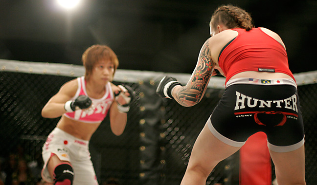 Cropped from source: Flickr